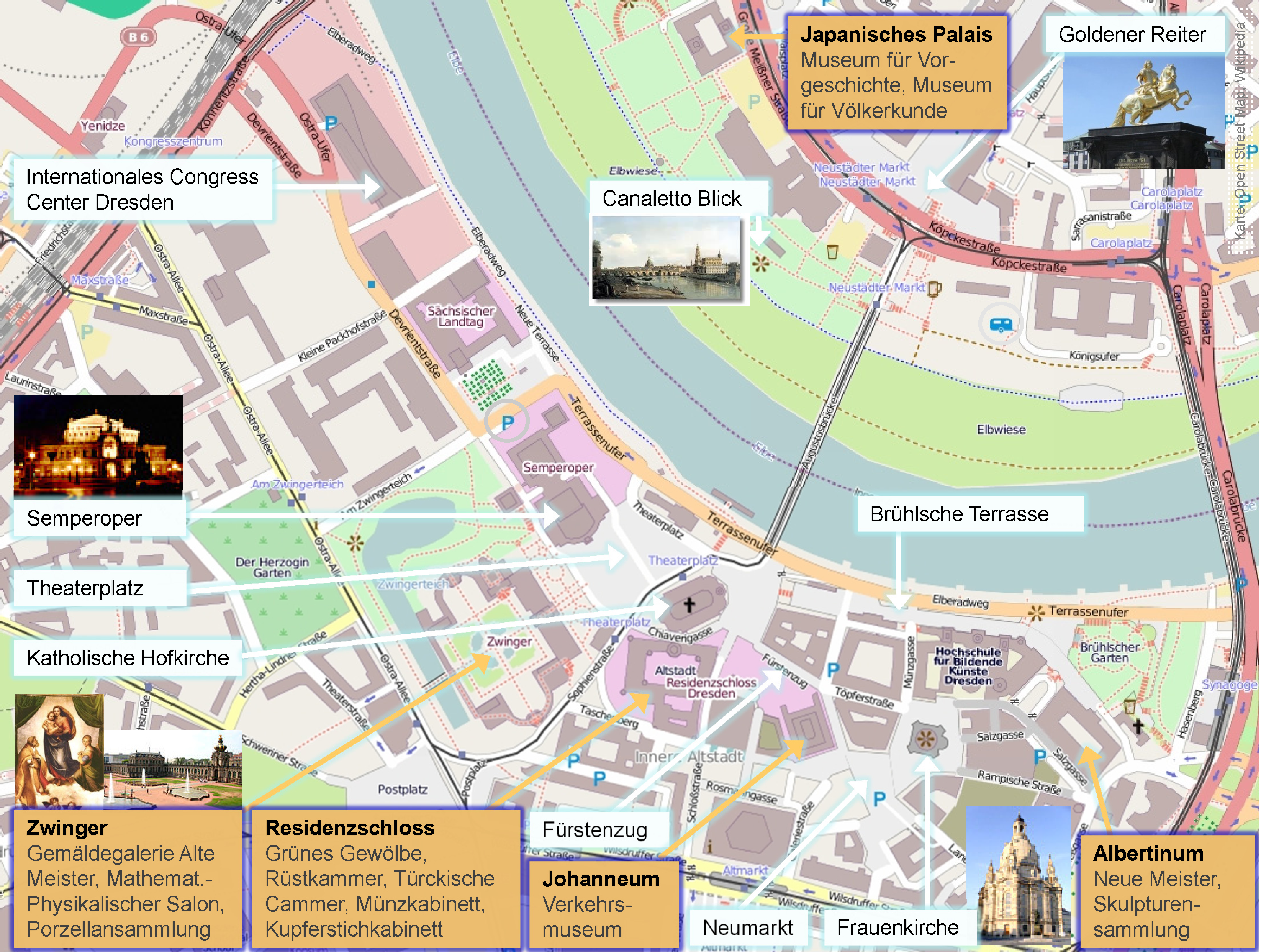 Museums in the historic center of Dresden